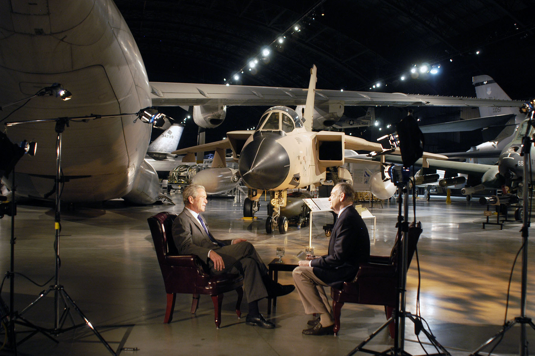 DAYTON, Ohio -- Television host, author, syndicated columnist and political commentator Bill O’Reilly filmed his show "The O’Reilly Factor" at the Air Force Museum in Dayton, Ohio, November 2010, where he did a live interview with former President George W. Bush. (U.S. Air Force photo)